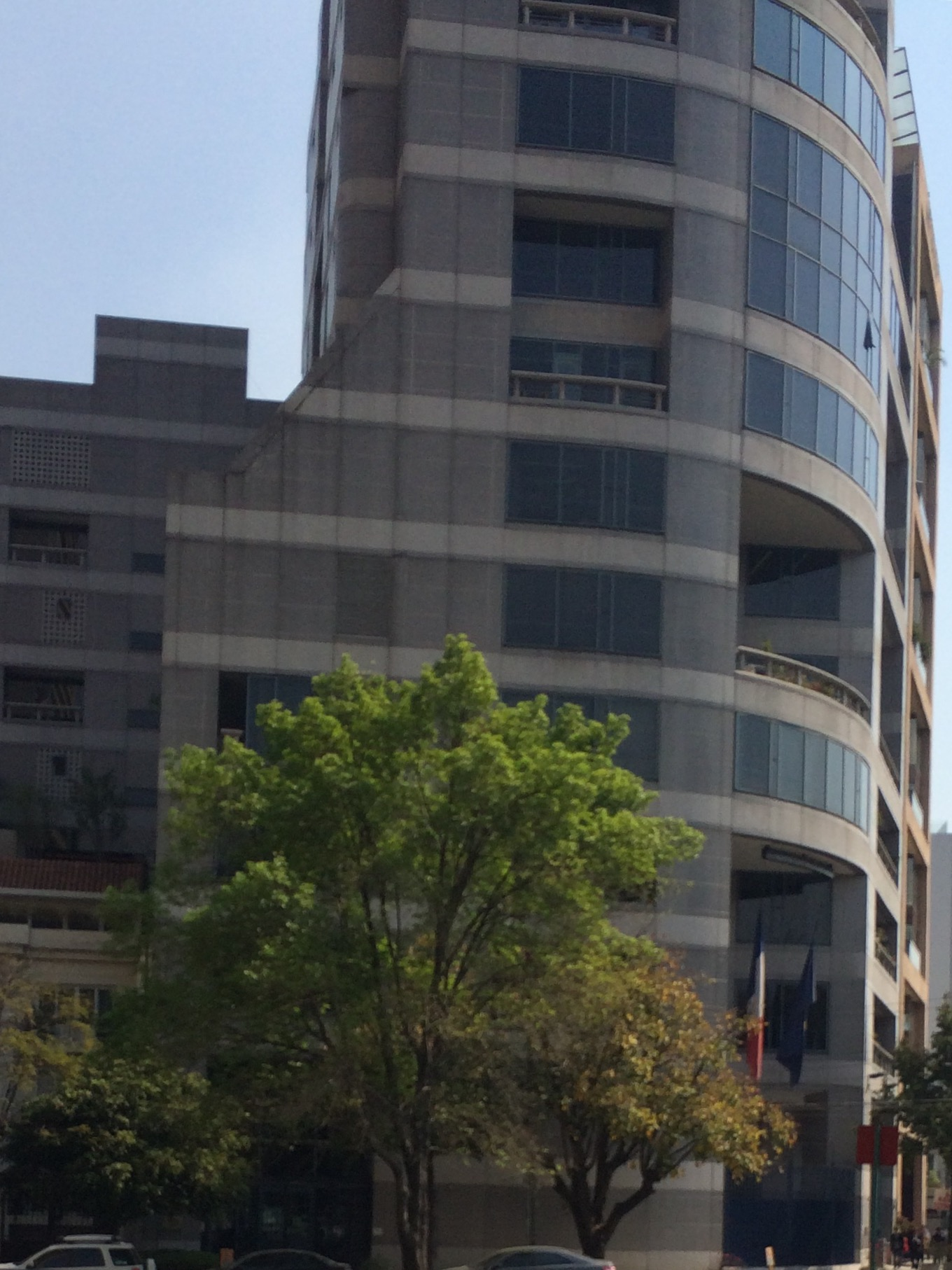 Embassy of France in Mexico City